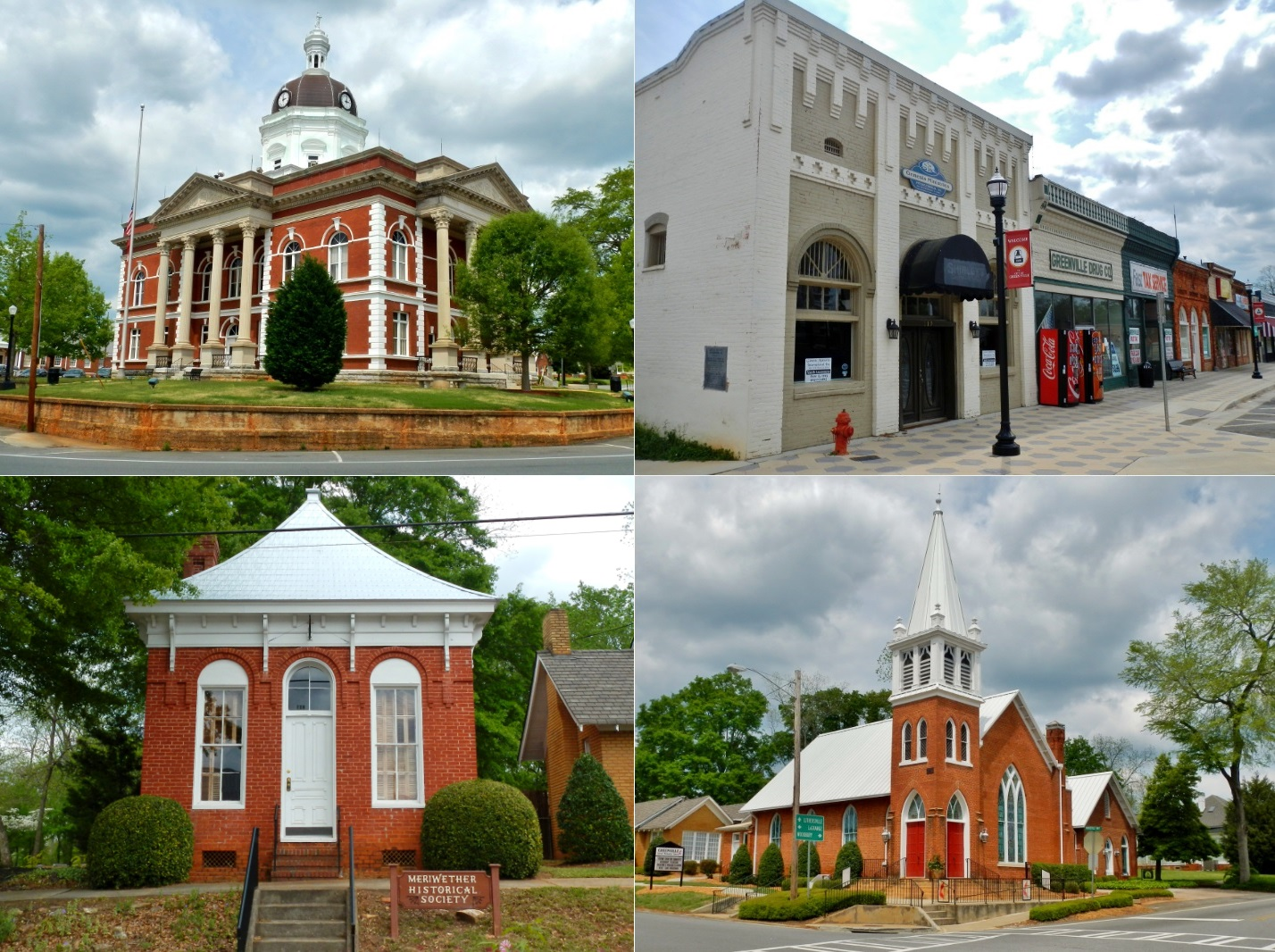 This is a series of photographs I took of the Greenville Historic District in Greenville, GA.